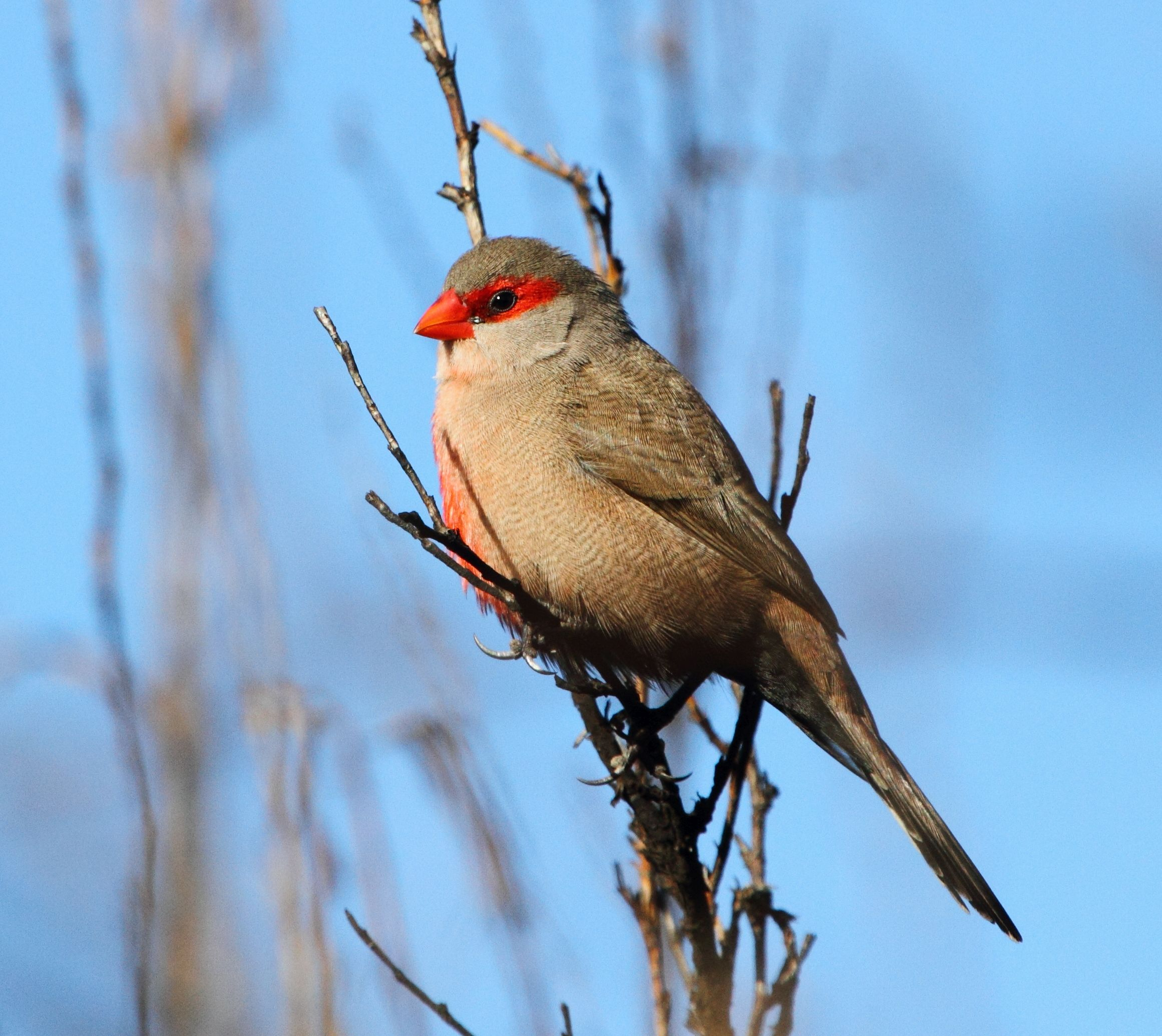 Male common waxbill Estrilda astrild at Krakeel River, Eastern Cape.